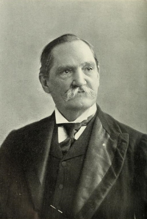 Portrait of Tomás Estrada Palma